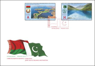 Joint issue of Belarus and Pakistan. National parks.